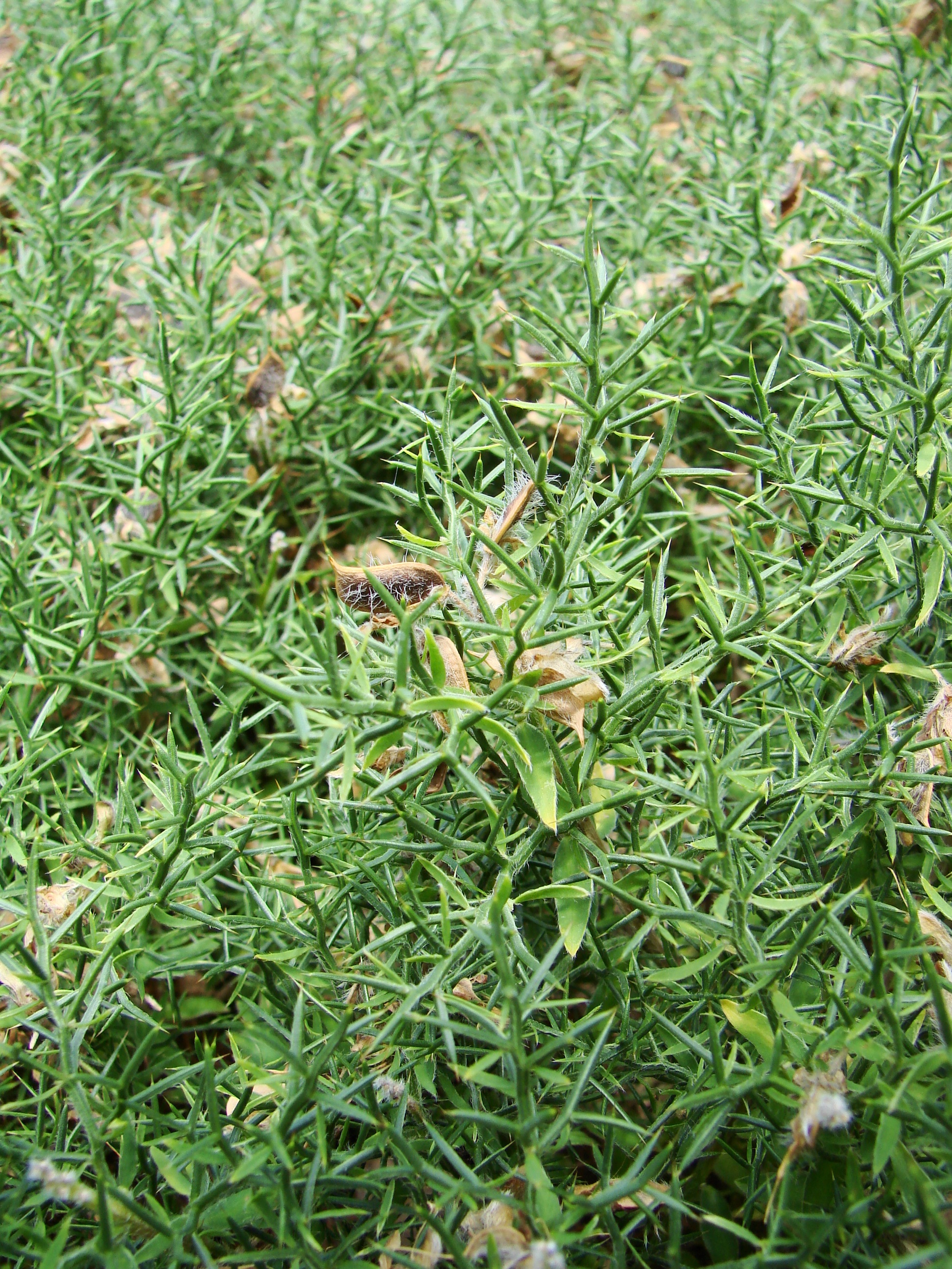 Picture taken in the university botanical garden of Wrocław (Poland): Genista hispanica L.